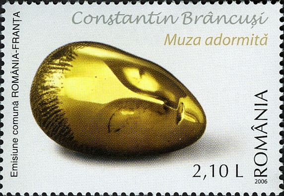 Stamps of Romania, 2006